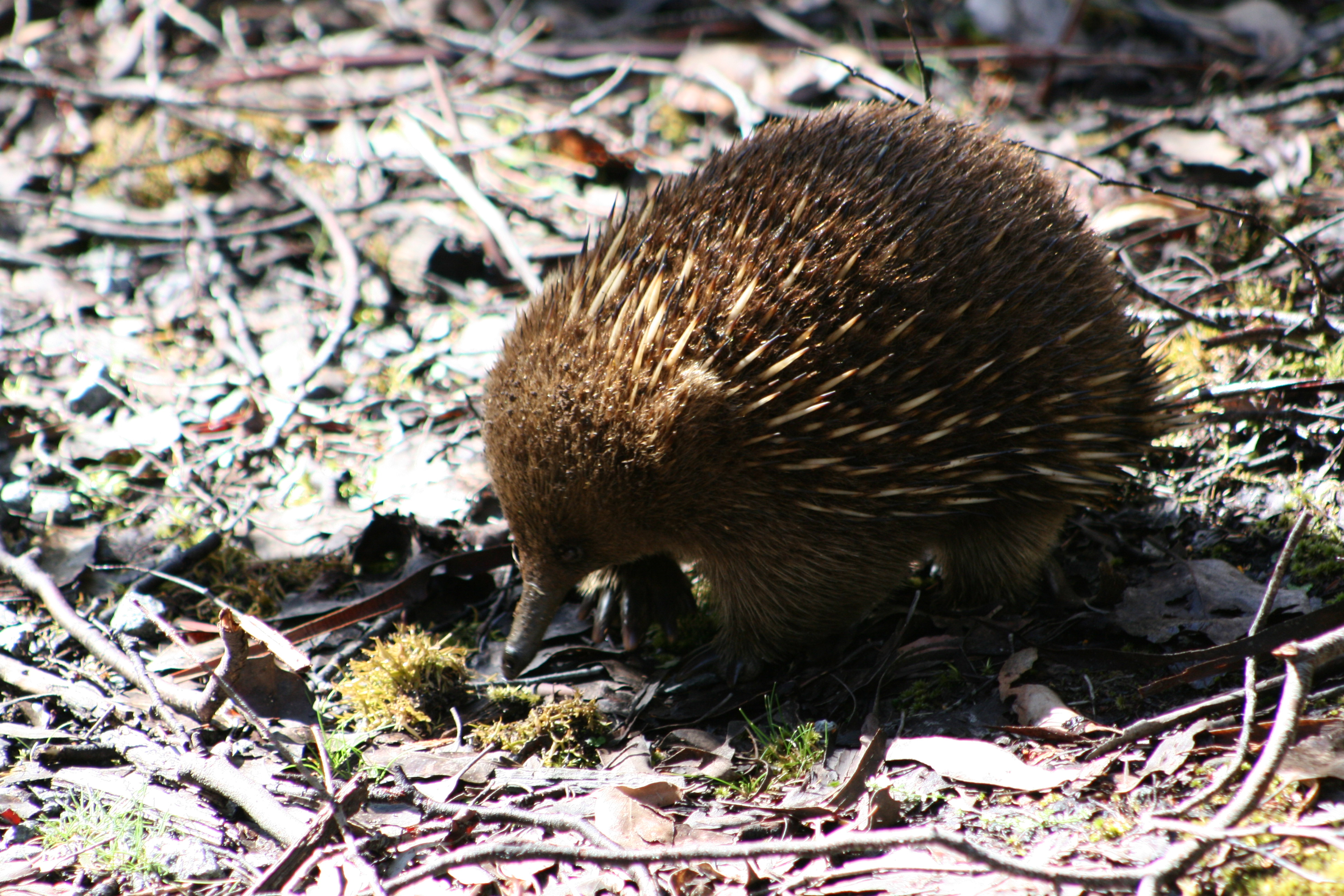 Echidna (Tachyglossus aculeatus), Cradle Mt Ntal Park, Tasmania, Australia